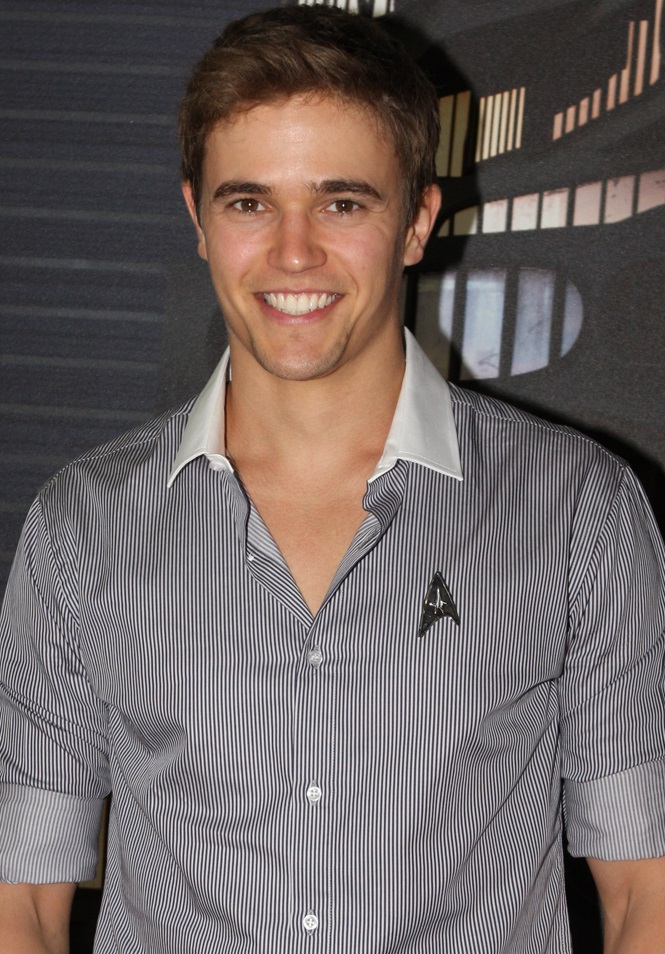 Nic Westaway at the Star Trek Into Darkness Premiere in Sydney